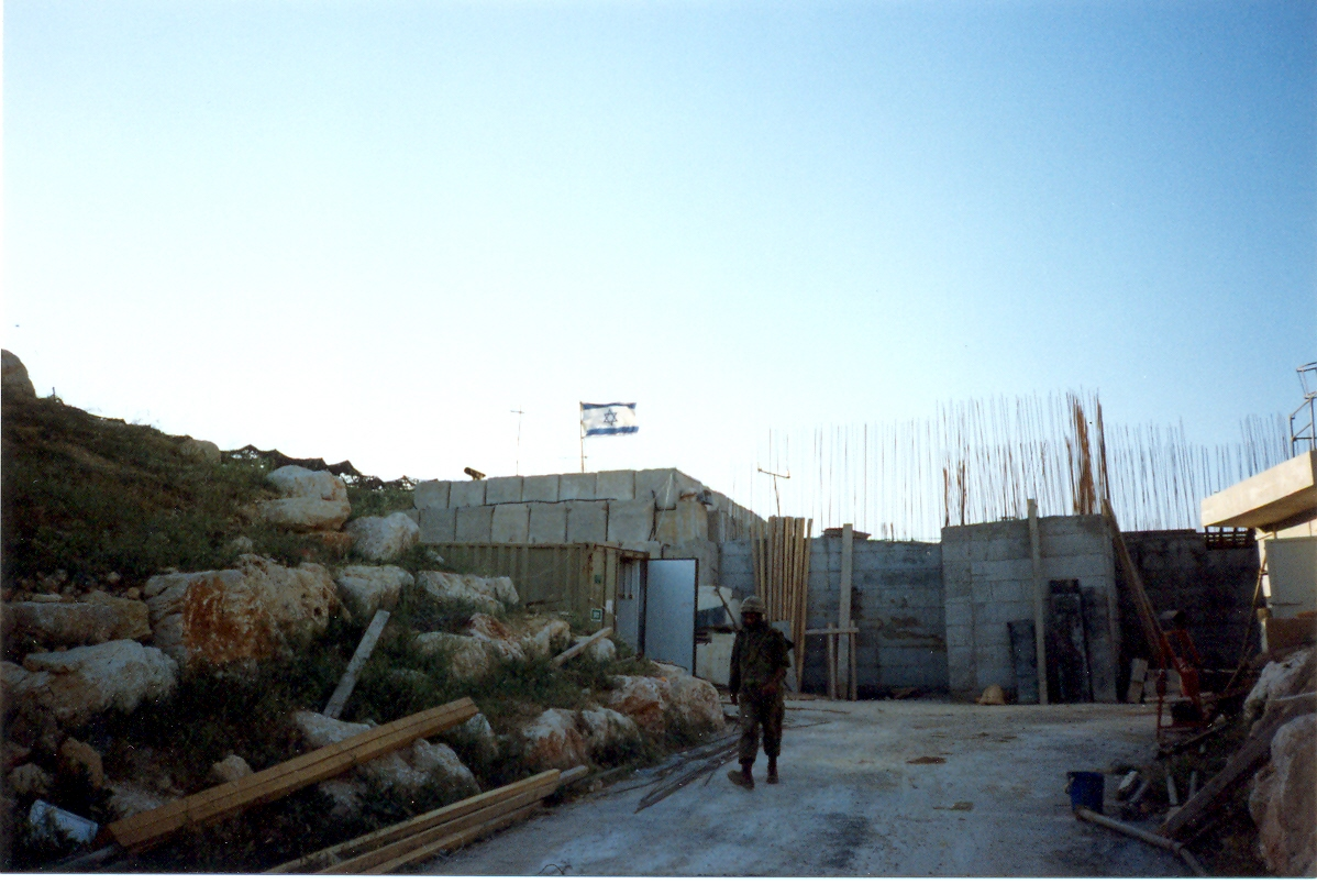 עבודות המיגון במוצב גלגלית ברצועת הביטחון בדרום לבנון. התמונה צולמה על יד טל ס.